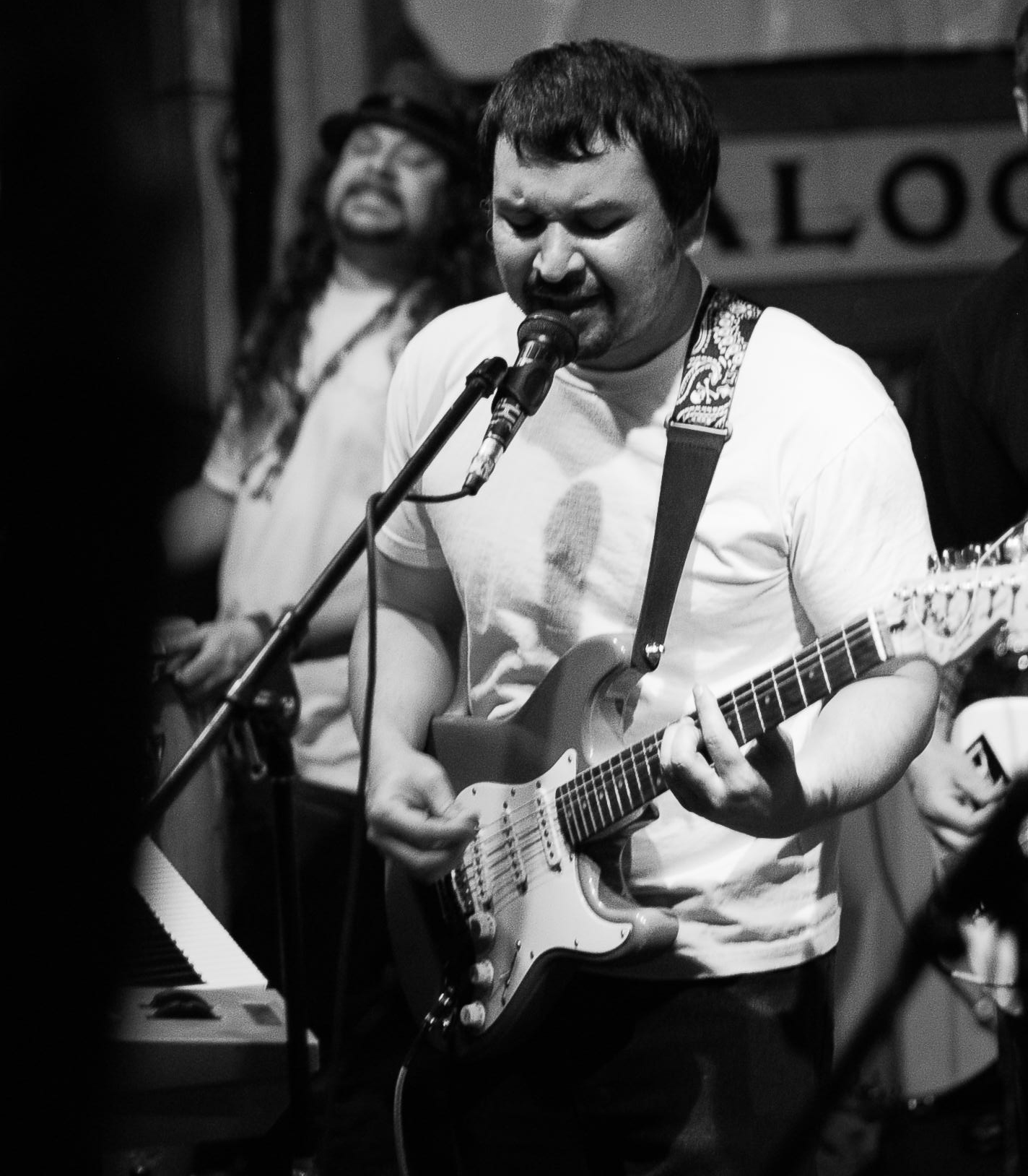 Tom Miller from Black Camaro performs at The Bunkhouse Saloon In Las Vegas. This photo has been cropped to remove logo.